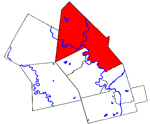 Woolwich